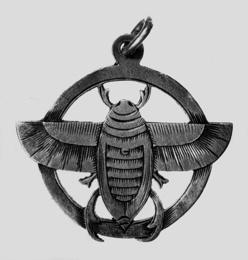 May-bug as a symbol of Saint-Petersburg Karl May school